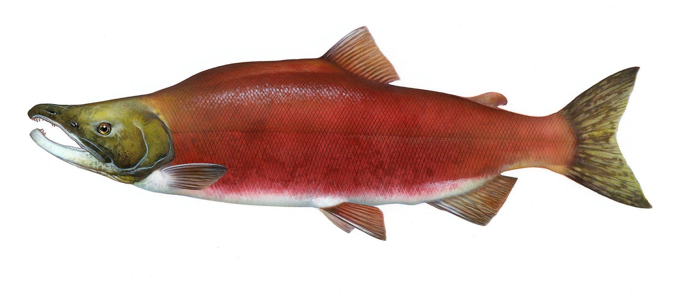 Sockeye salmon (Oncorhynchus nerka) from the Northern Pacific Ocean.